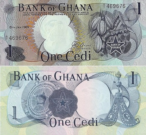 1 Cedi note, first series of New Cedi